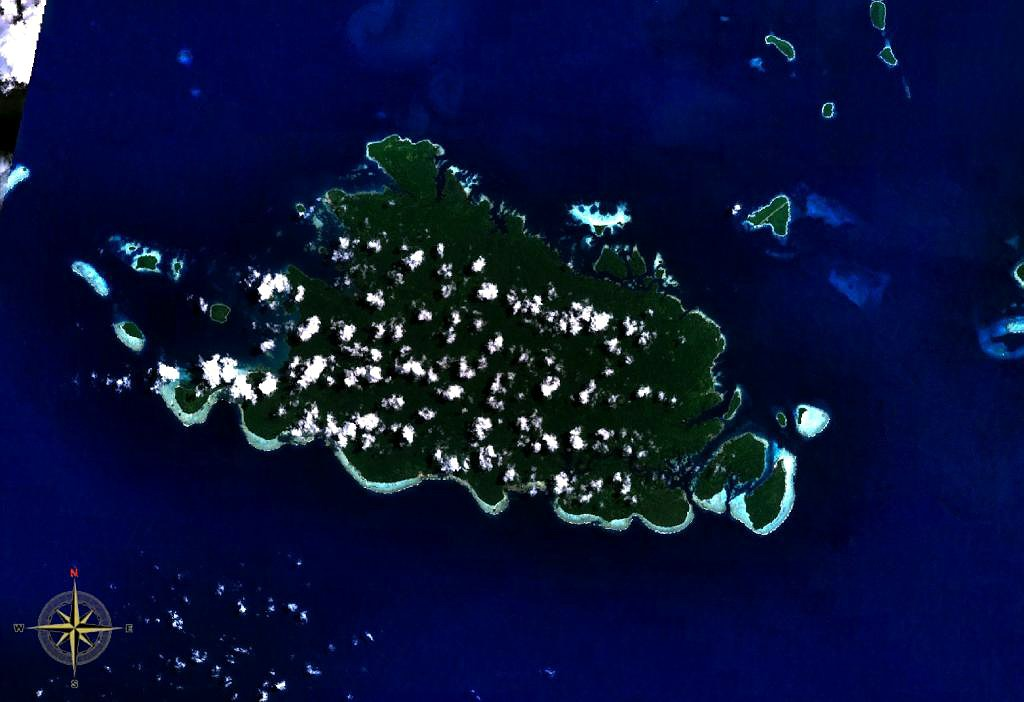 Shortland Island in the Solomon Islands. Satellite view.